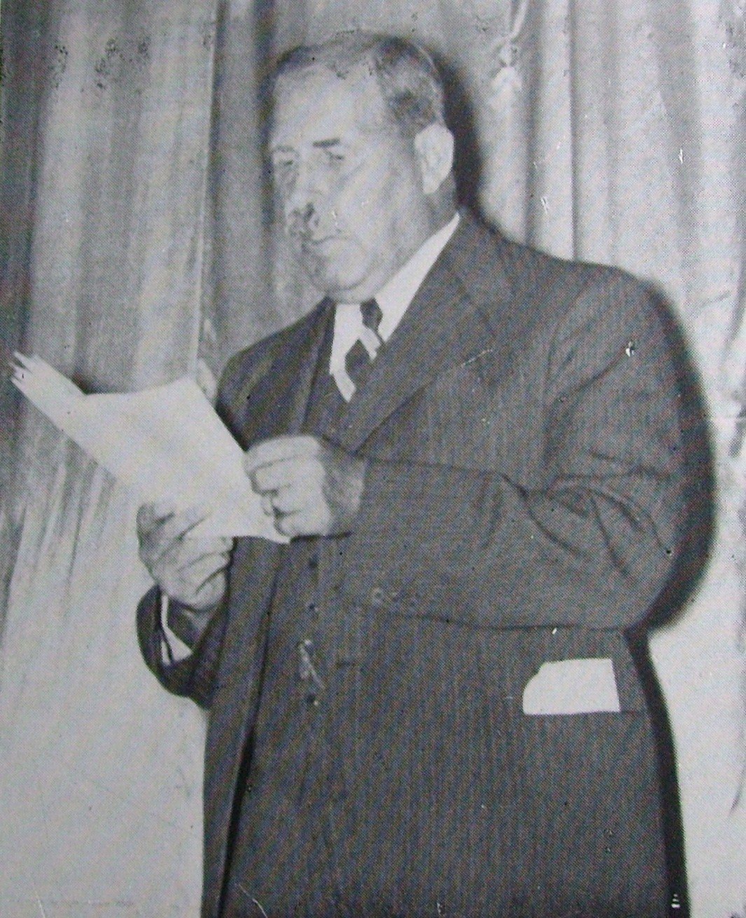 Picture of Axel Dahlström, Swedish politician